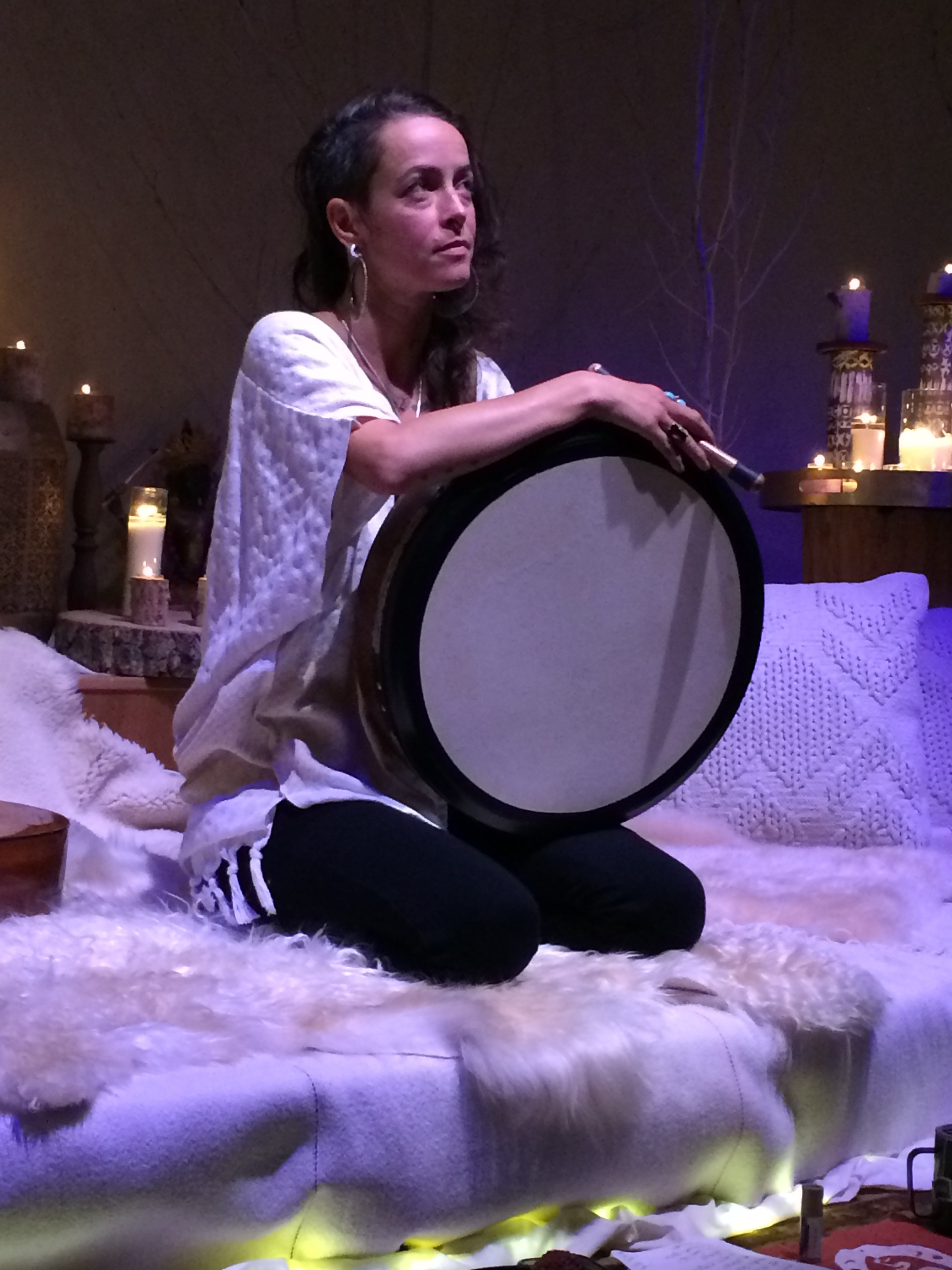 Leah Song with odhrán, a traditional Celtic frame drum.